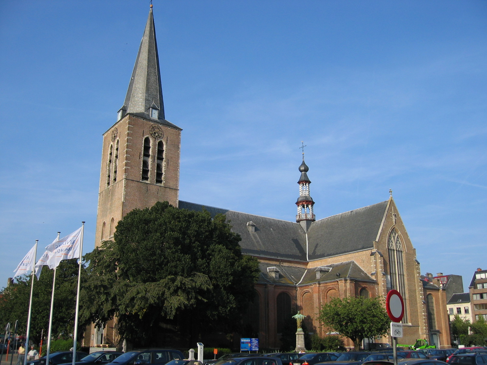 Church of St Peter, (Sint Pieterskerk) in Turnhout, Belgium. Picture by Tim Bekaert (Sep 4, 2005).